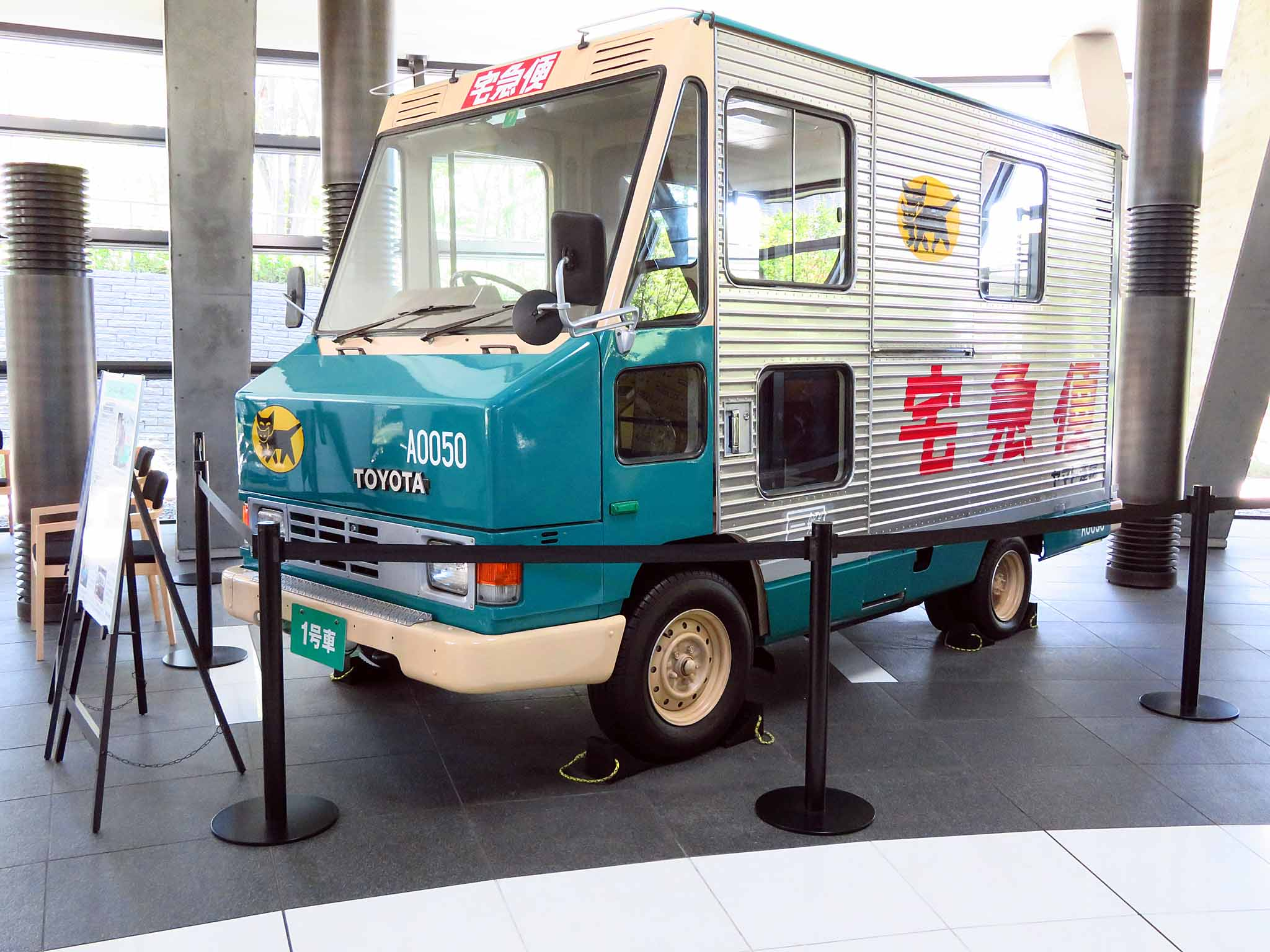 Toyota Walk-through Van for Yamato Transport, based Toyota Hiace LH24, prototype of Quick Delivery. Displayed at Haneda Chronogate